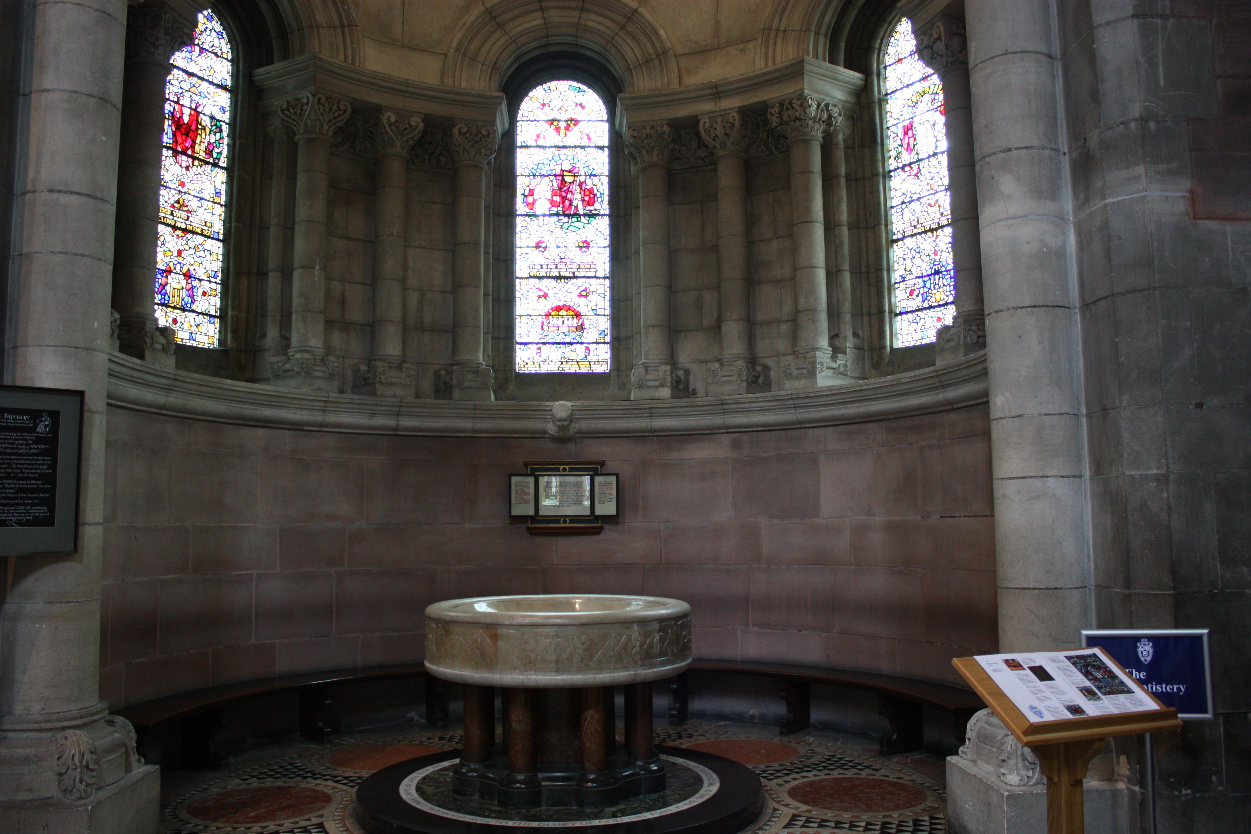 Baptistry and font, St Anne's Cathedral, Donegall Street, Belfast, Northern Ireland, July 2010